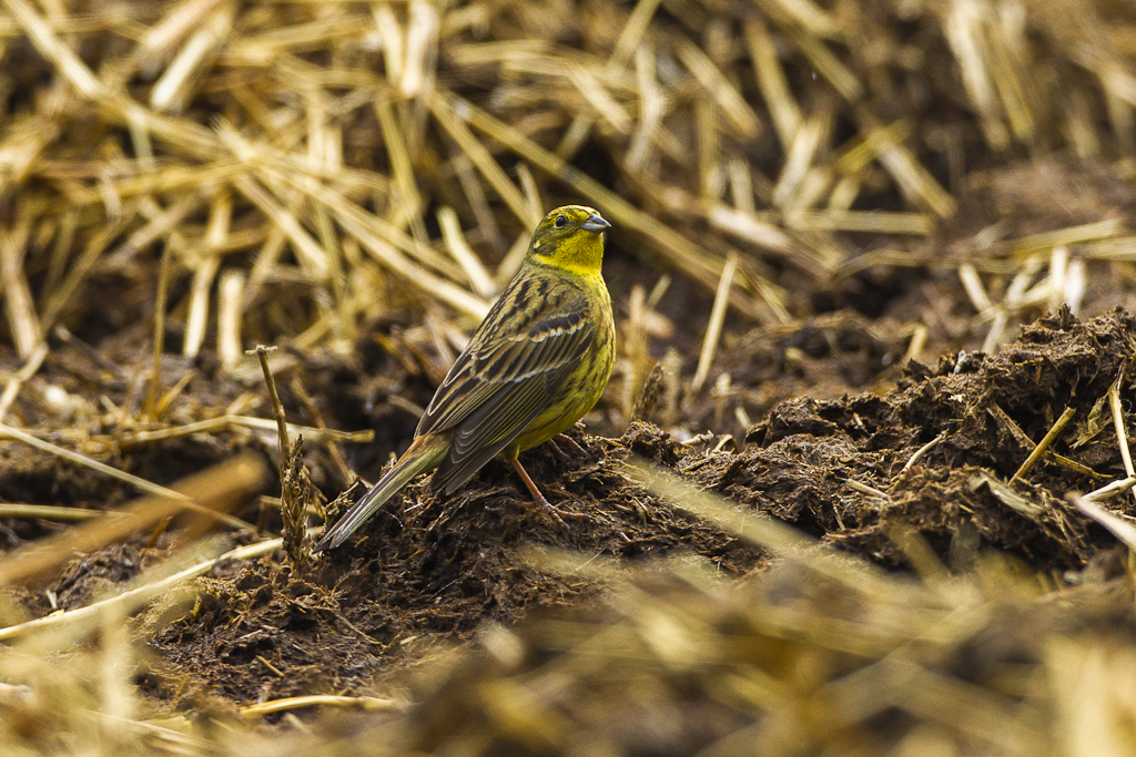 Near La Salle ( Aosta ) I like to spend time photographing birds coming to catch insects and worms in the cows manure